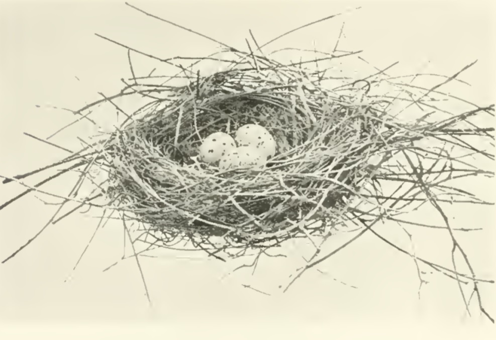 Image of pied honeyeater (Certhionyx variegatus) eggs by North, A 1909